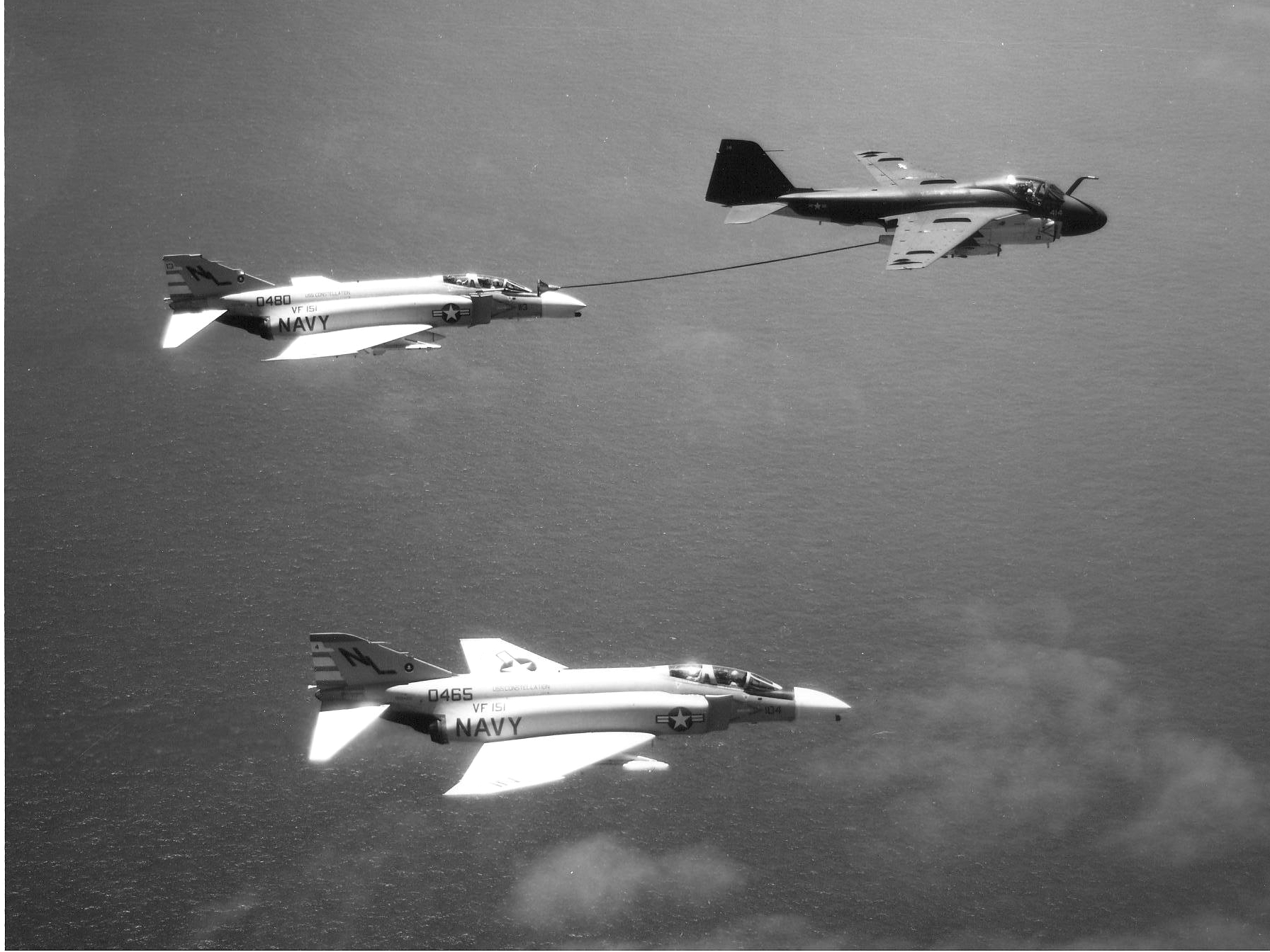 Two U.S. Navy McDonnell F-4B Phantom II (BuNo 150465, 150480) of Fighter Squadron VF-151 "Vigilantes" are inflight refueling from an Grumman A-6A Intruder (BuNo 151820) of Attack Squadron VA-65 "Tigers" over the Gulf of Tonkin, in October 1966. Both squadrons were assigned to Carrier Air Wing 15 (CVW-15) aboard the aircraft carrier USS Constellation (CVA-64) for a deployment to Vietnam from 12 May to 3 December 1966. Note the experimental camouflage of the A-6.